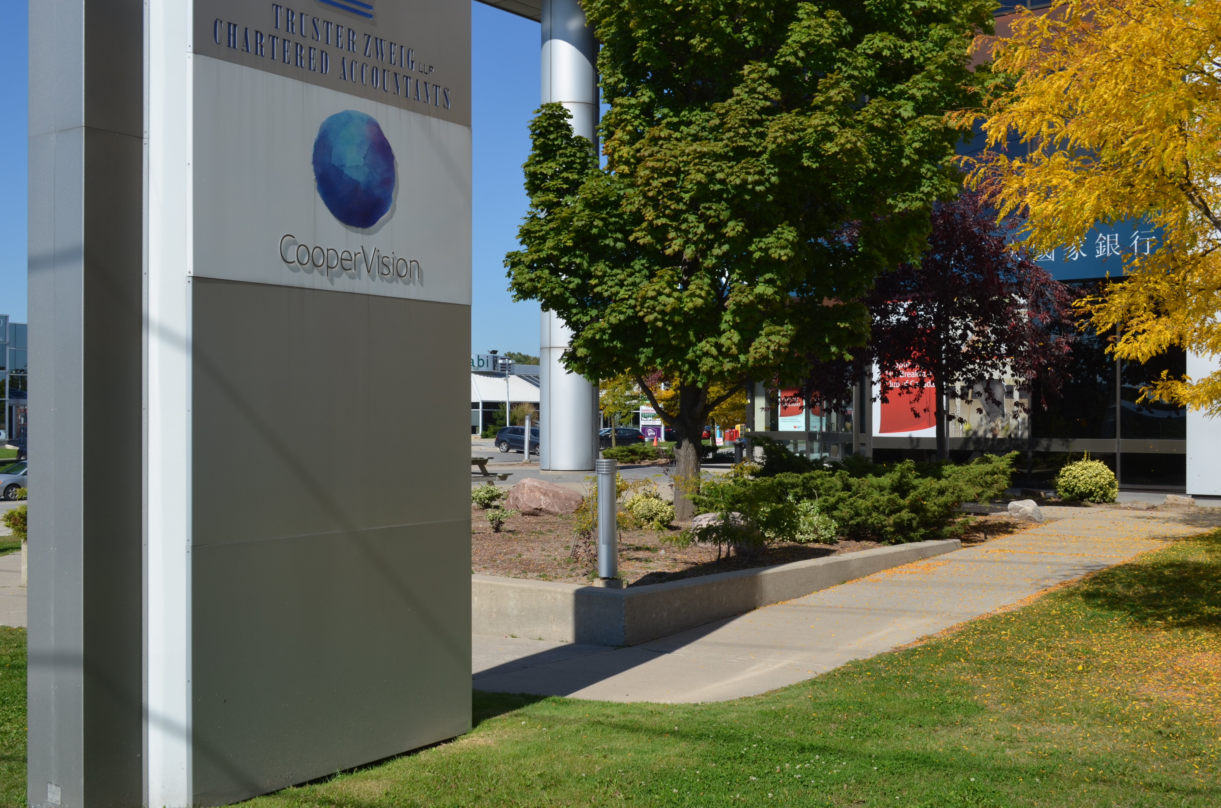 CooperVision Canada Corp. - 500 Highway 7 East, Richmond Hill, ON